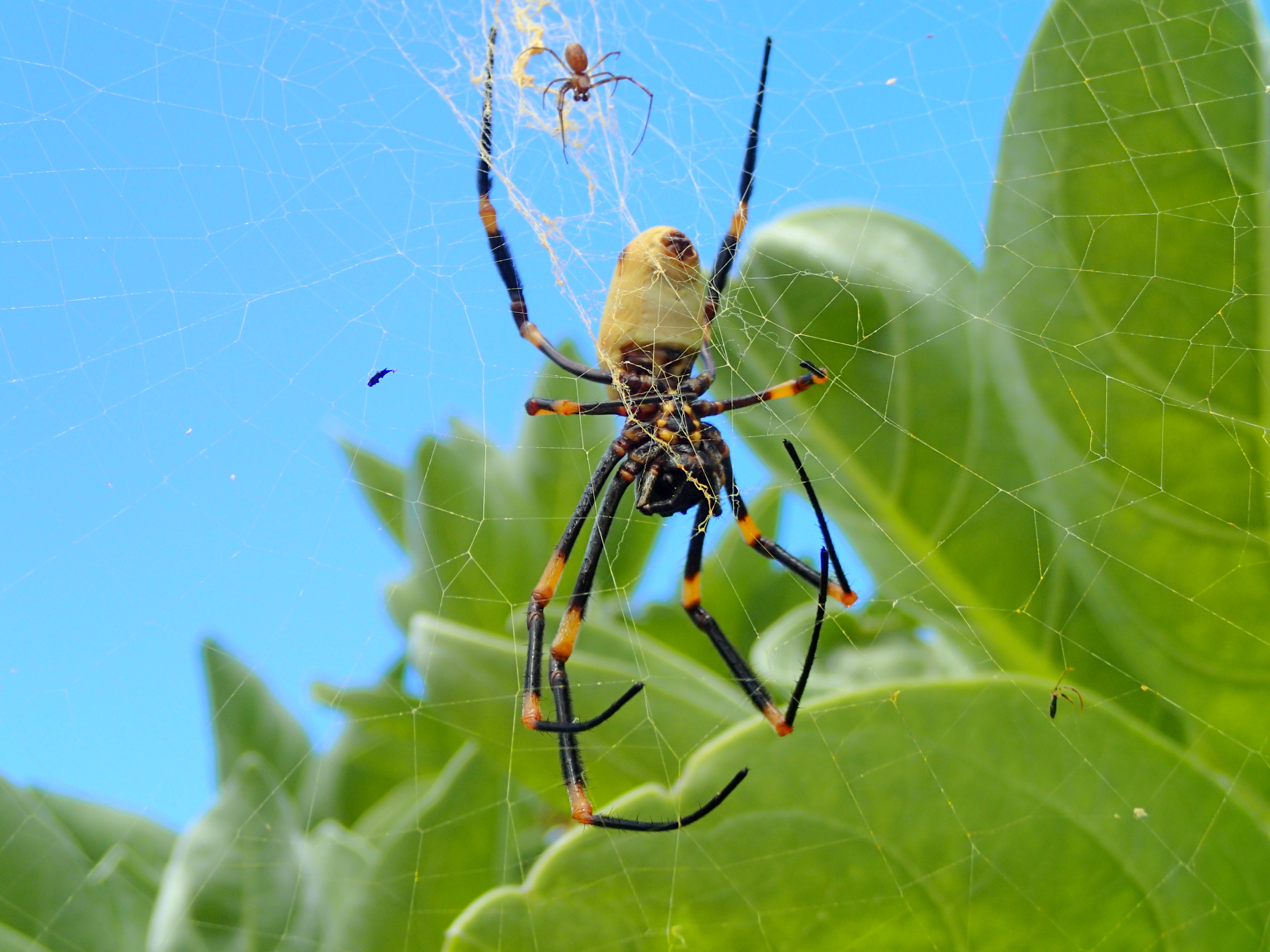 Nephila tetragnathoides